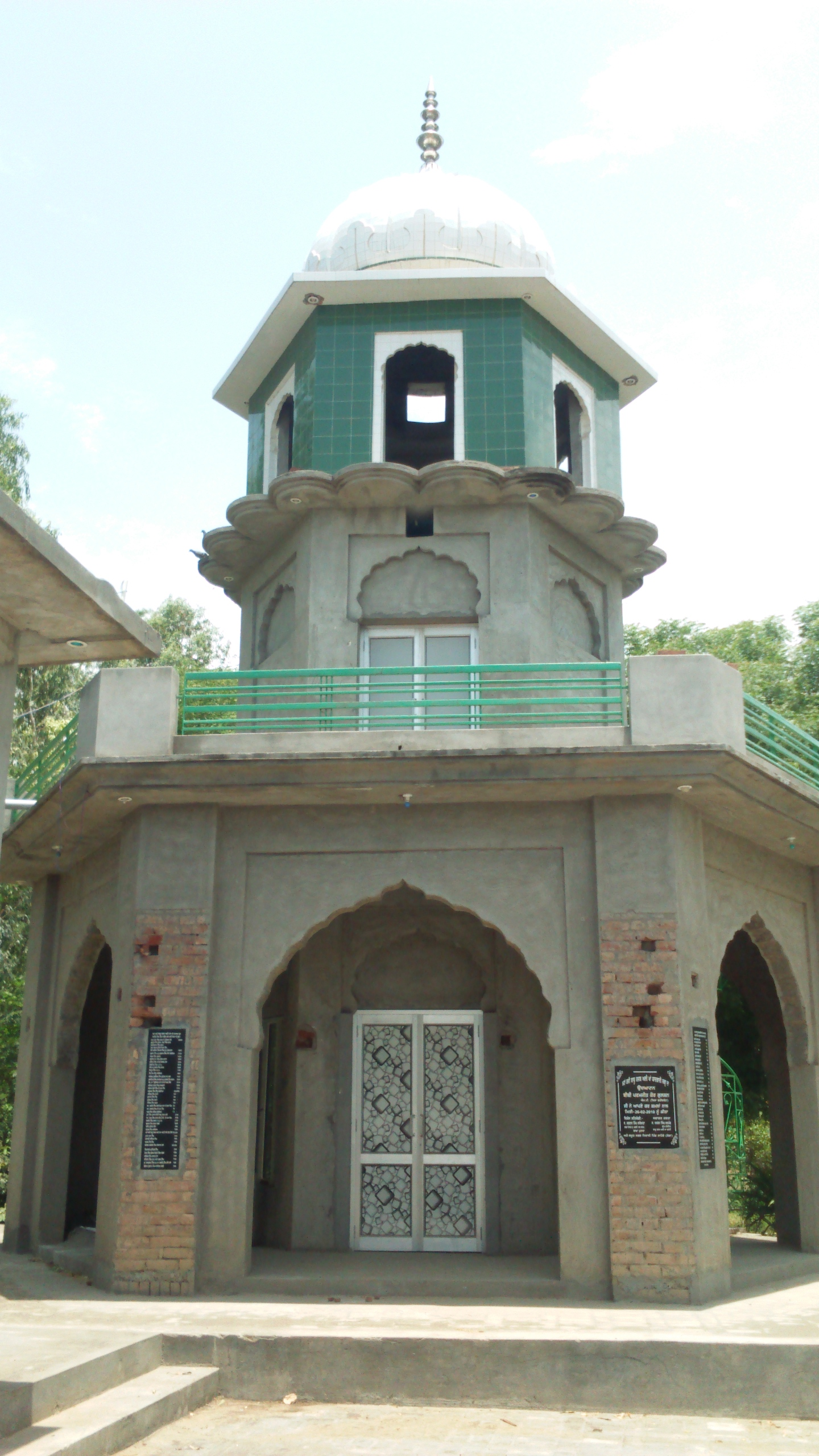 A memorable Place of BABU RAJAB ALI KHAN , Village Sahoke, Moga, Punjab